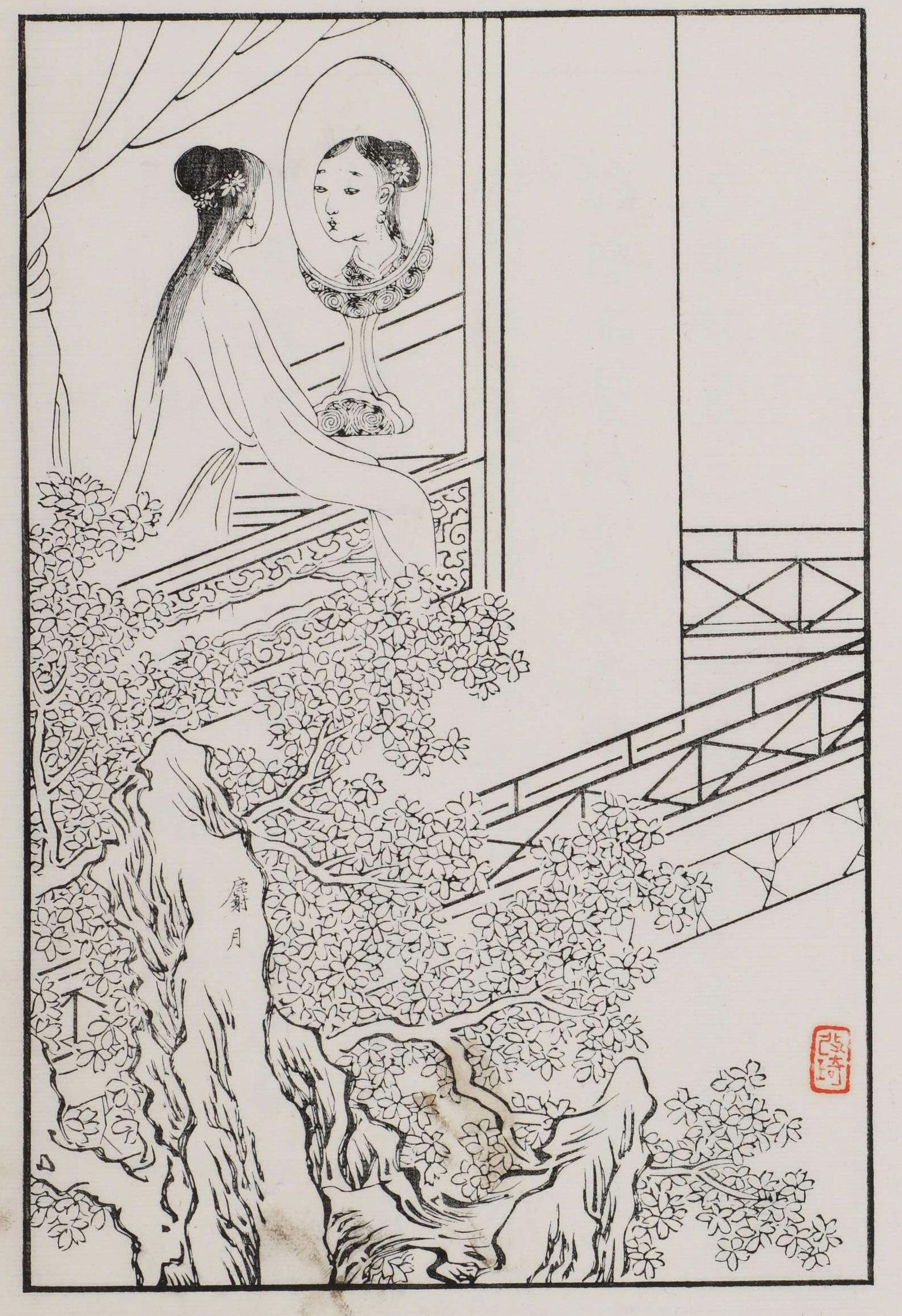 Sheyue